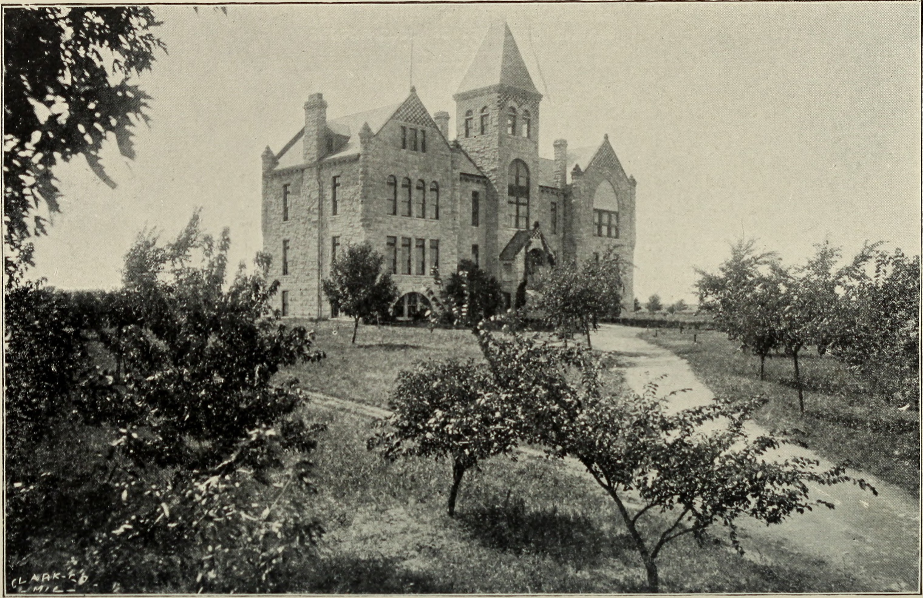 Title: Annual catalogue of the officers and students of Cooper Memorial College, Sterling, Kansas Year: 1888 (1880s) Authors: Sterling College (Kan.) Subjects: Sterling College (Sterling, Kan.) Publisher: Sterling, Kansas : The Arkansas Valley Times : Bulletin Print Text Appearing Before Image: Sterling, Kansas. 1900-1901 Text Appearing After Image: FOURTEENTH Annual Catalogue . . . OF . . . Cooper College Collegiate Department Preparatory DepartmentSchool of Music School of Art School of Pedagogy 1900=1901 Sterling, Kansas. Bullehk Pkini. 8TBBUN«, KikSSAS, Calendar 1901-1902. 1901. June 9, 3:30 p. m Sermon before Prayer Guild by Rev. L. M. Riley, Lyons, Kansas June 9, 8:00 p. m Baccalaureate Sermon by the President June 10, 8:15 p. m Chrestomatheon Annual June 11, 8:15 p. m Theomoron Annual June 12, 10:00 a. m Annual Meeting of Senate June 12, 5:00 p. m Alumni Banquet June 12, 8:15 p. m Annual Address by Hon. Chester I. Long, Seventh District Representative June 13, 2:00 p. m Inter-society Athletic Contest June 13, 8:15 p. m Commencement September 2, Monday, 1 p. m Entrance Examination September 3, Tuesday, 1 p. m Fall Term Begins October 24 Bible Reading Contest October 28 ; Mid-Term Begins November 28-29 Thanksgiving Recess December 13 Intermediate Contest December 19 Fall Term Closes 1902. January 1, Wednesday Winter Term Be